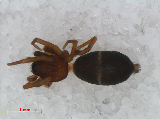 Arboricaria subopaca, adult female from the Netherlands